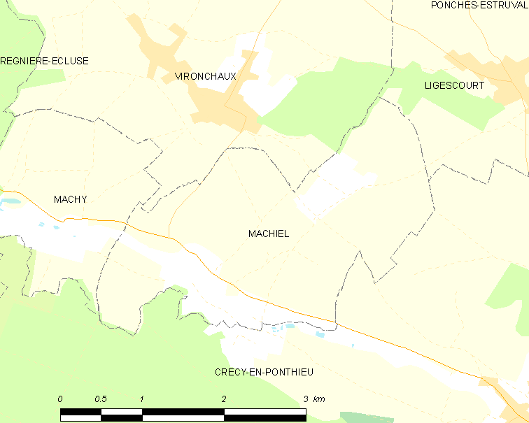 Map of French municipality Machiel